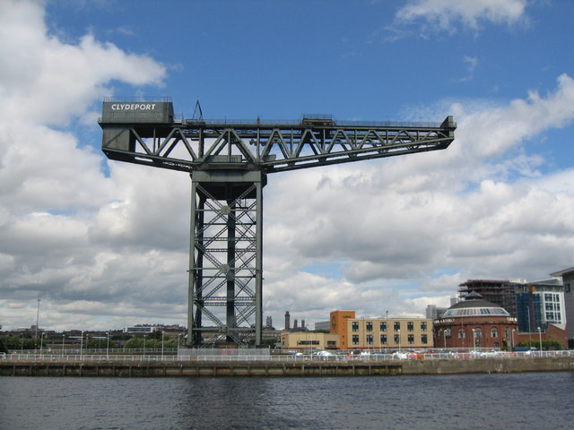 Crane and Casino, Finnieston, Glasgow